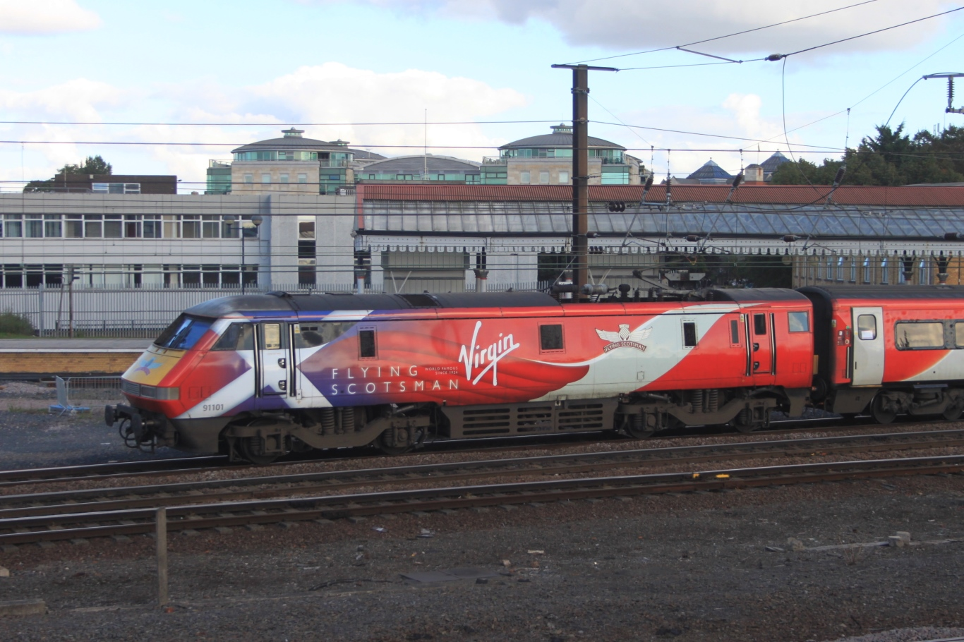 91101 Flying Scotsman arriving at York at the rear of a southbound Virgin Trains' service.